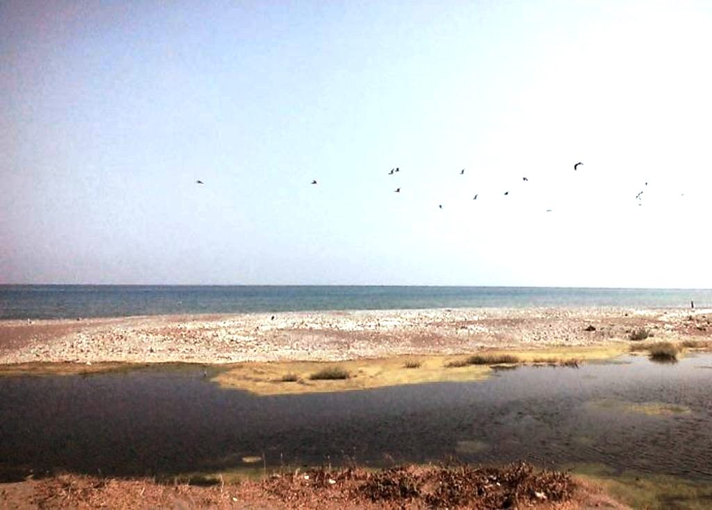 Souq El thnin beach, Bejaia, Algeria – Beautiful picture of the faune an flore in one image